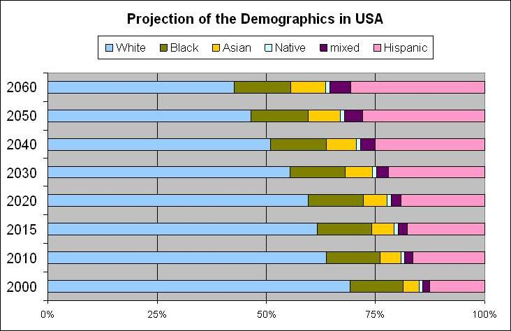 Projected Proportion of Race/Ethnicity in USA Definition; White=Non-Hispanic White, Black=Non-Hispanic Black or African American, Asian=Non-Hispanic East, South-East, South Asia, Native=Non-Hispanic American Indian or Alaska Native or Native Hawaiian or other Pacific Islander, Hispanic=Hispanic or Latino of all races